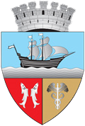 Coat of arms of Galați, Romania